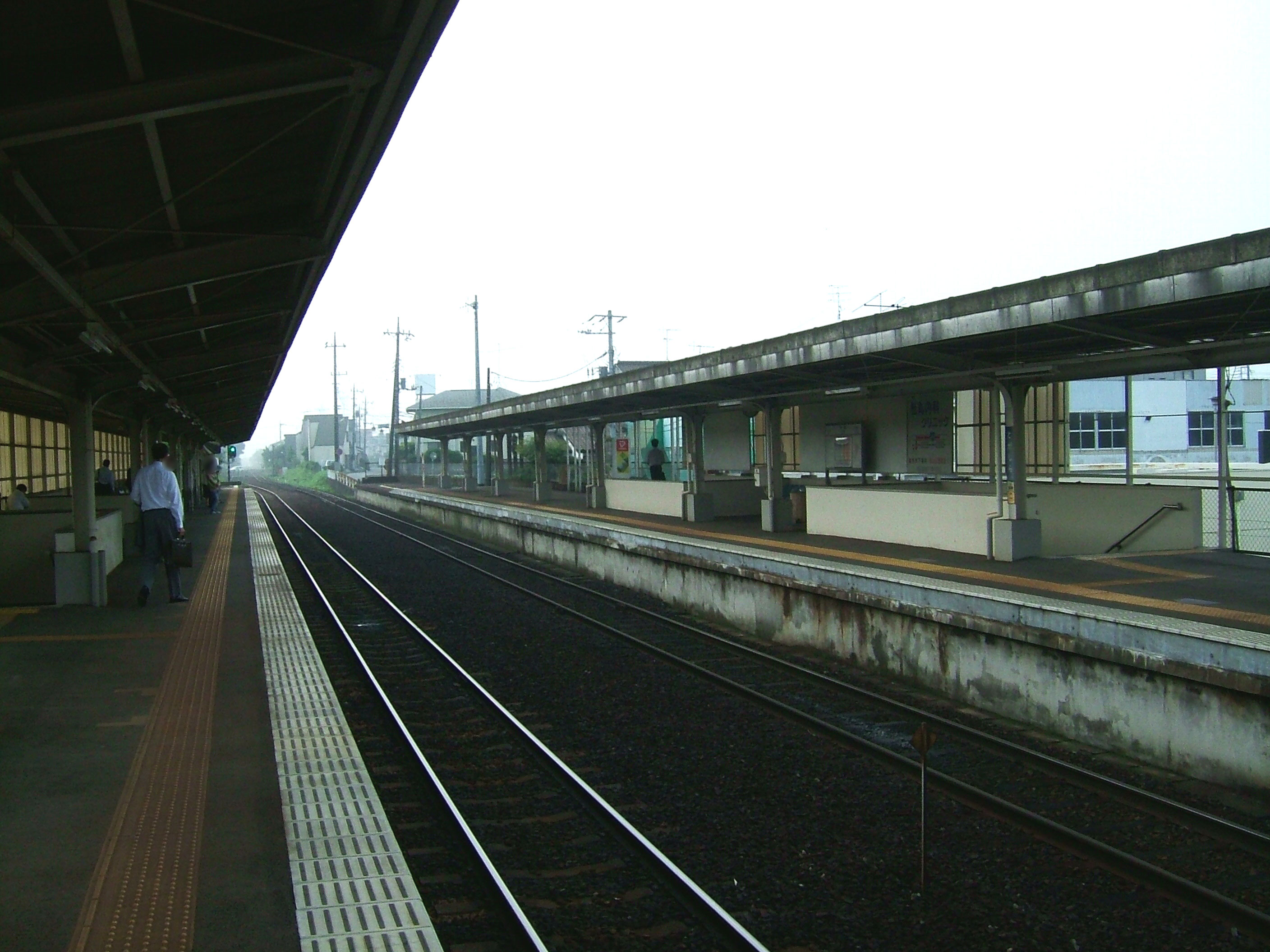 Togashira Station platform (Kanto Railway Jōsō Line)